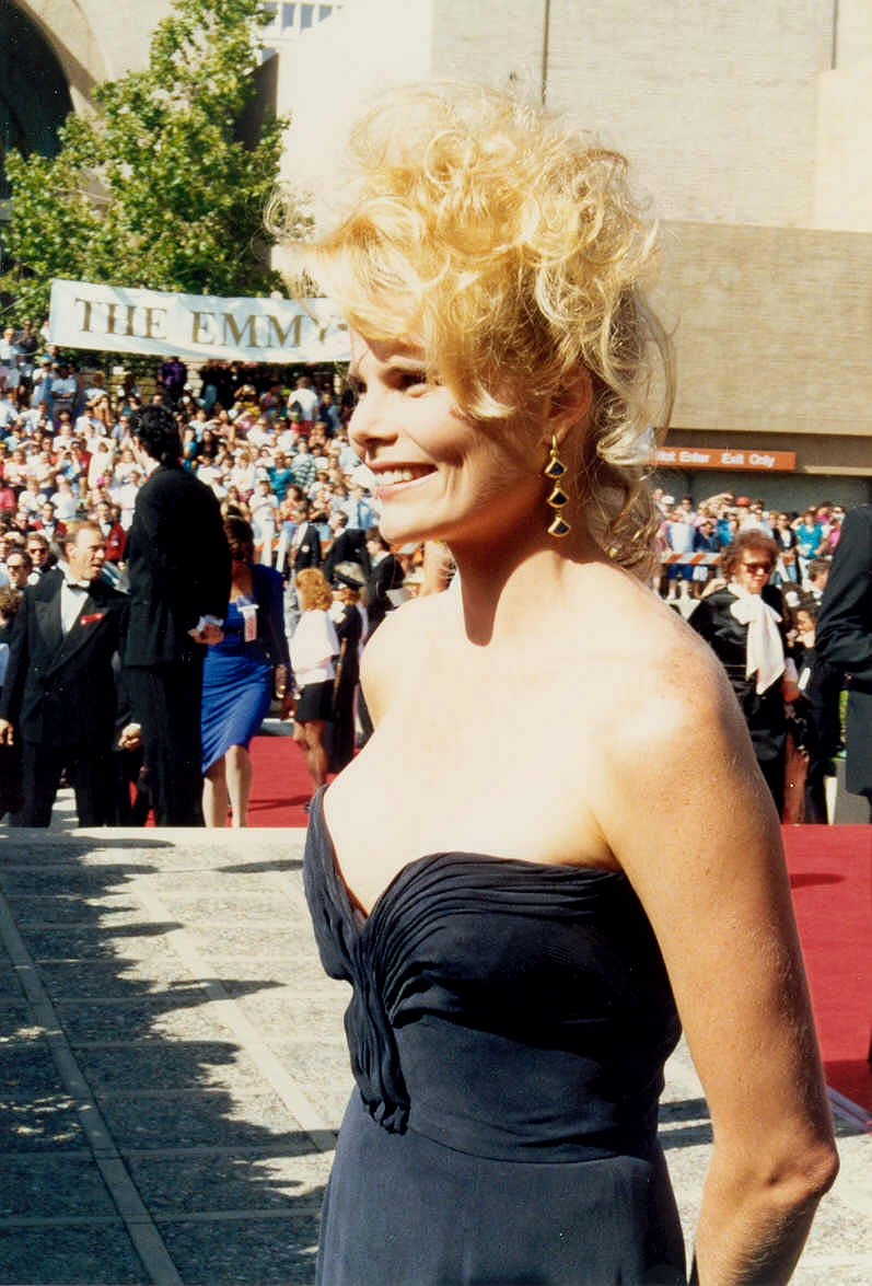 Mariel Hemingway on the red carpet at the 1992 Emmy Awards